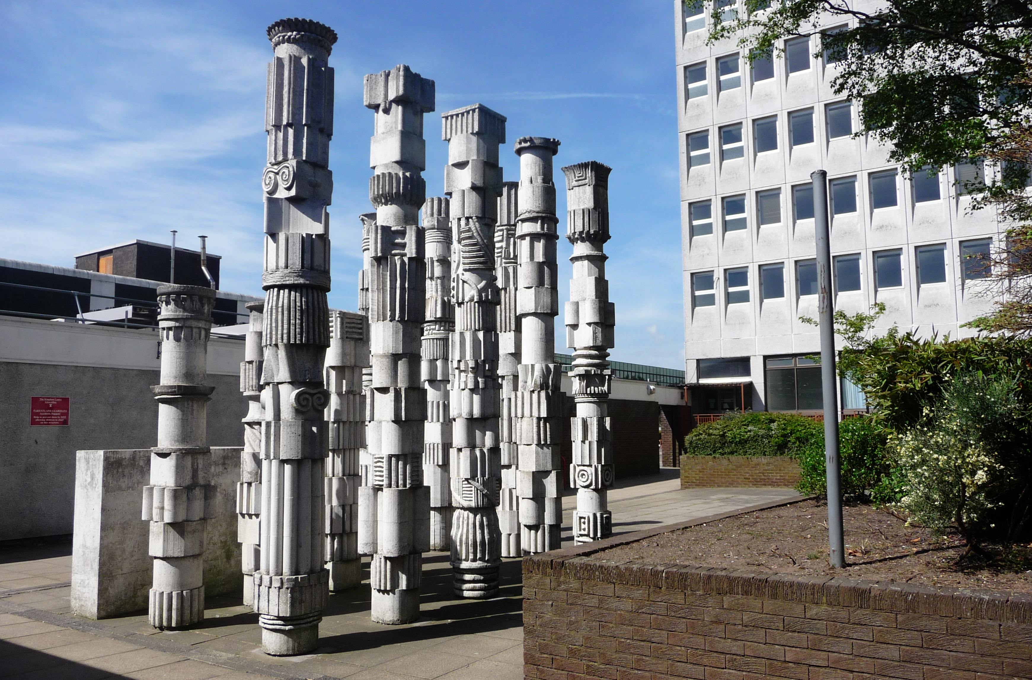 The Heritage by the town artist, David Harding, 1976. New Glenrothes House behind.